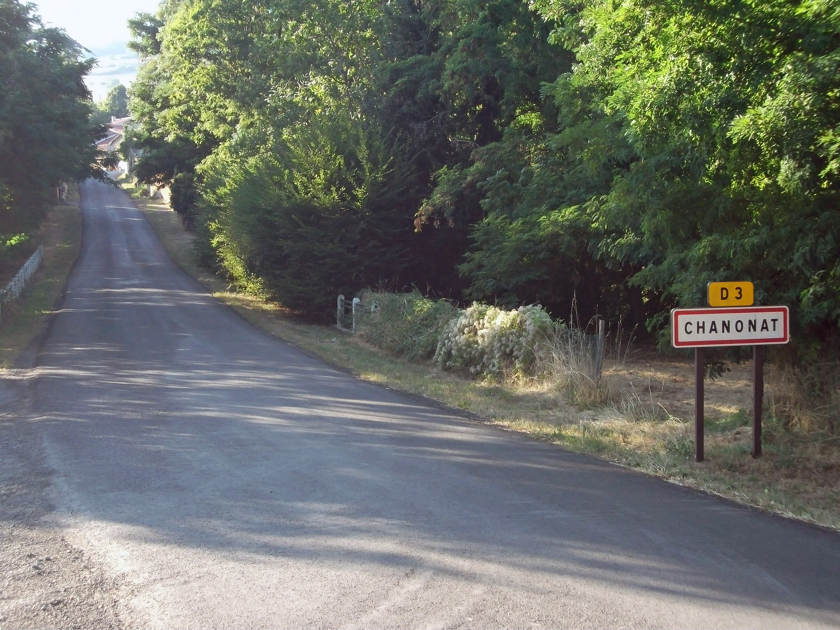 Entrance of Chanonat (from Le Crest) by departmental road 3 [11883]